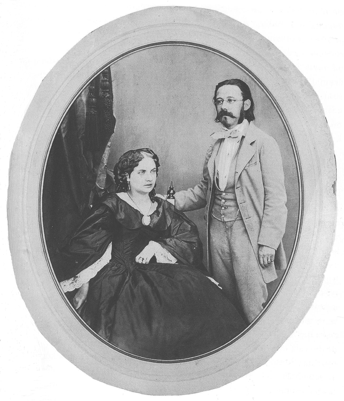 Bedřich Smetana and his second wife Bettina. Photography by Wilhelm Rupp, 1860.